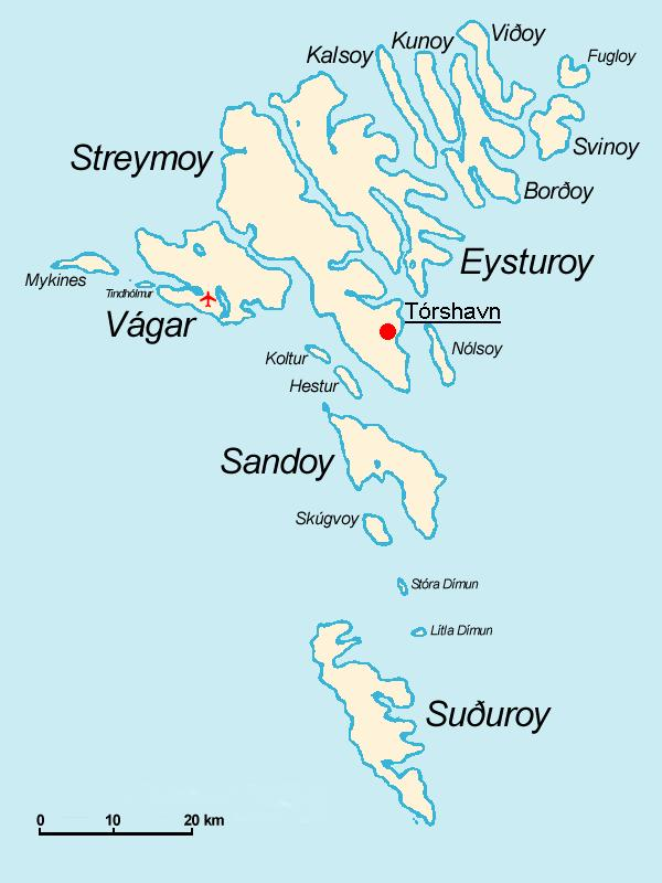 Faroe Islands map with island names